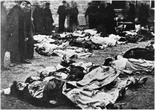 Jewish pogroms in Kishinev in 1903.